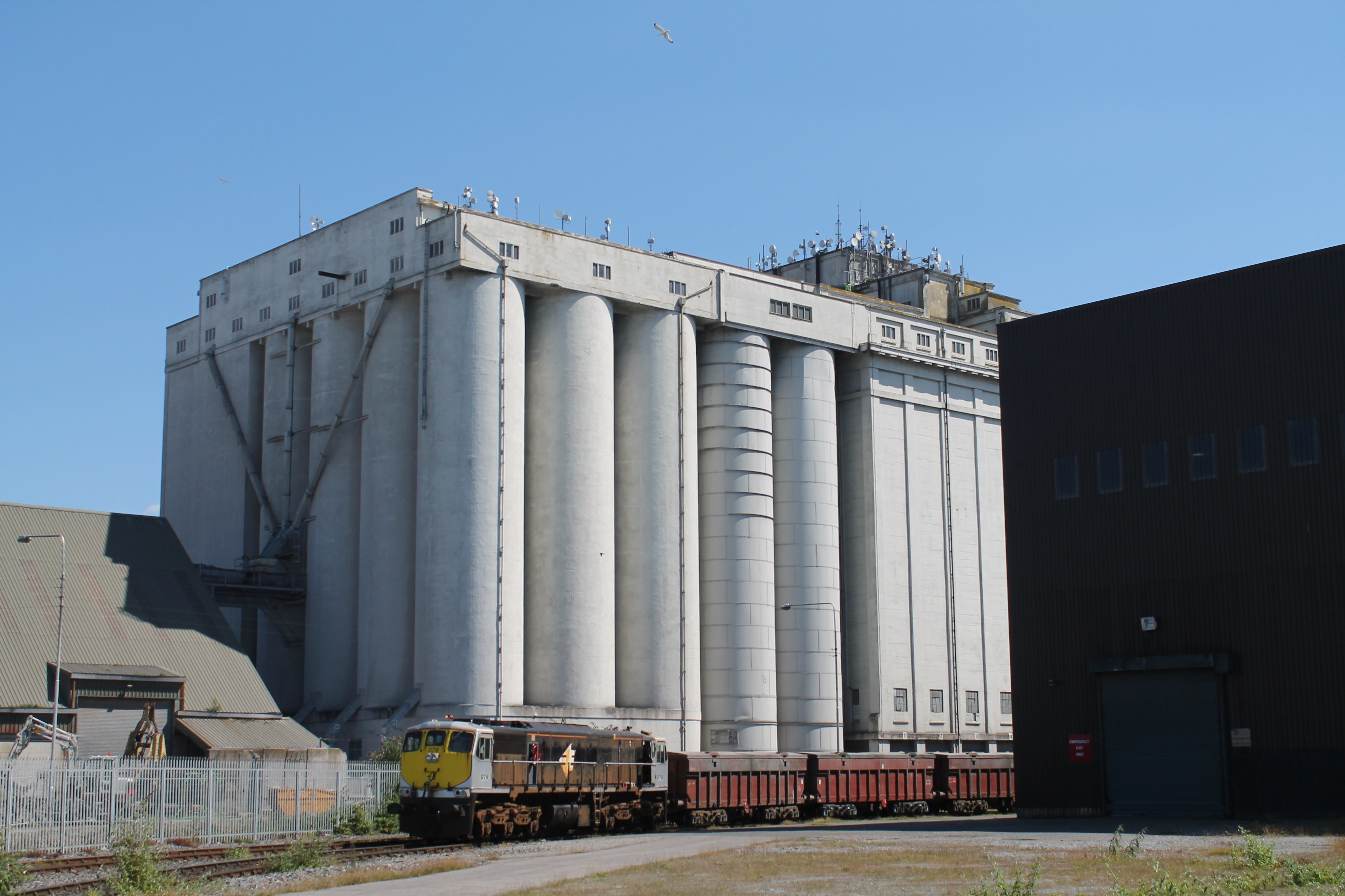 079 Shunting at the Boliden Lead & Zinc ore concentrates terminal.